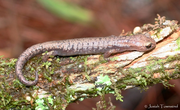 Bolitoglossa cataguana